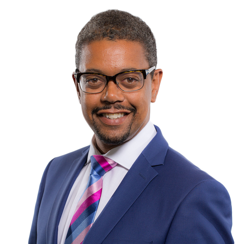 Vaughan Gething 2016